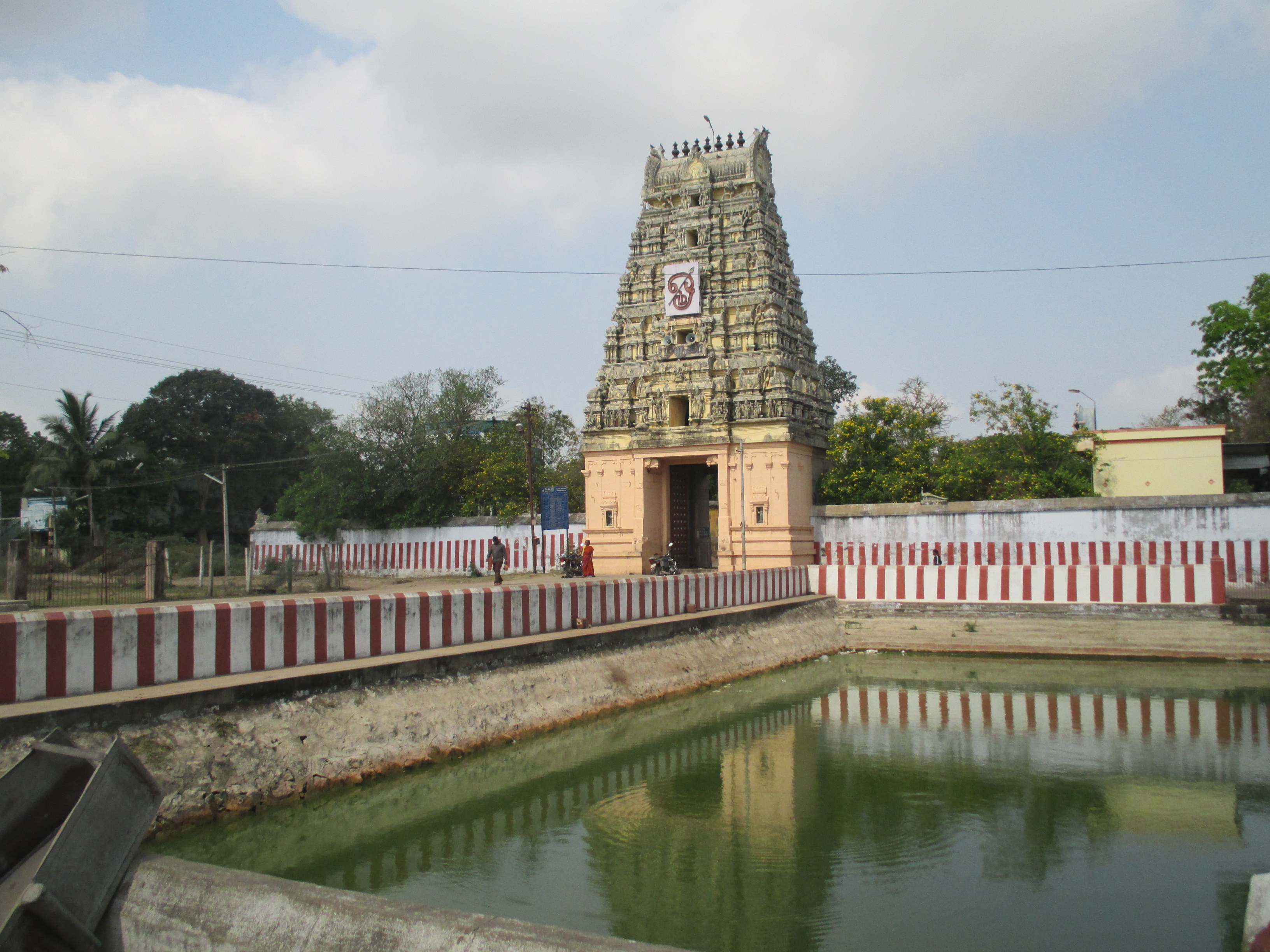 Subramanya Temple, Uthiramerur